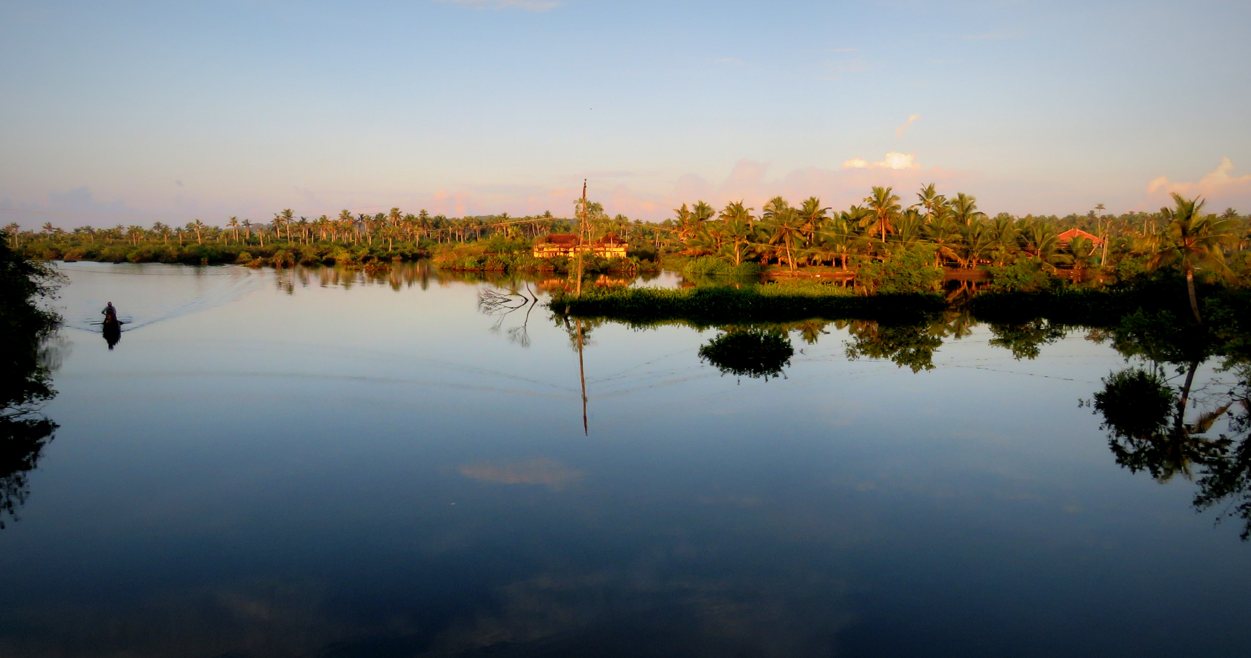 Muroe island is a very special geographic region in the Kollam district of Kerala. it is famous for its rare mangrove species.